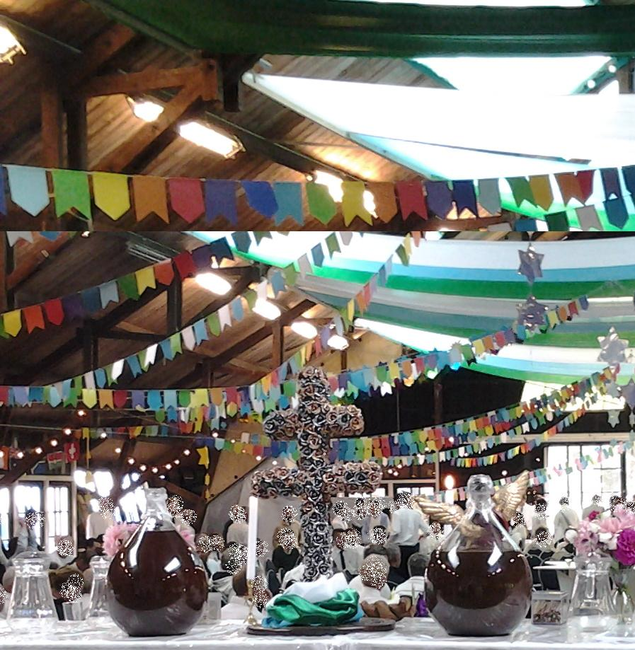 Ayahuasca (called "Santo Daime" in Santo Daime religion) waiting for beginning of the ceremonial work. Photo is digitally processed to protect anonymity of participants.